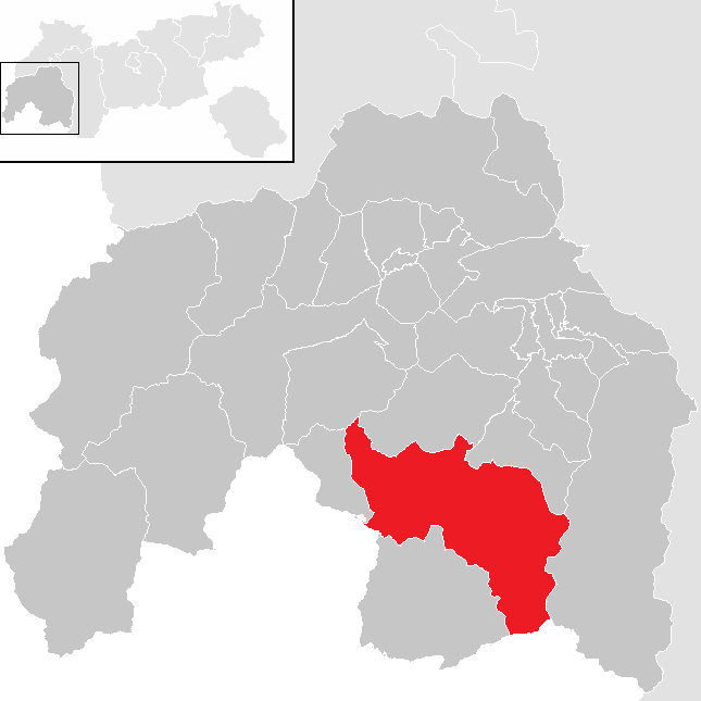 District Landeck